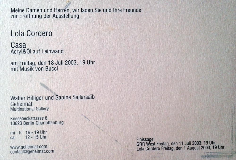 Finnisage, Geheimat Gallery, Berlin.